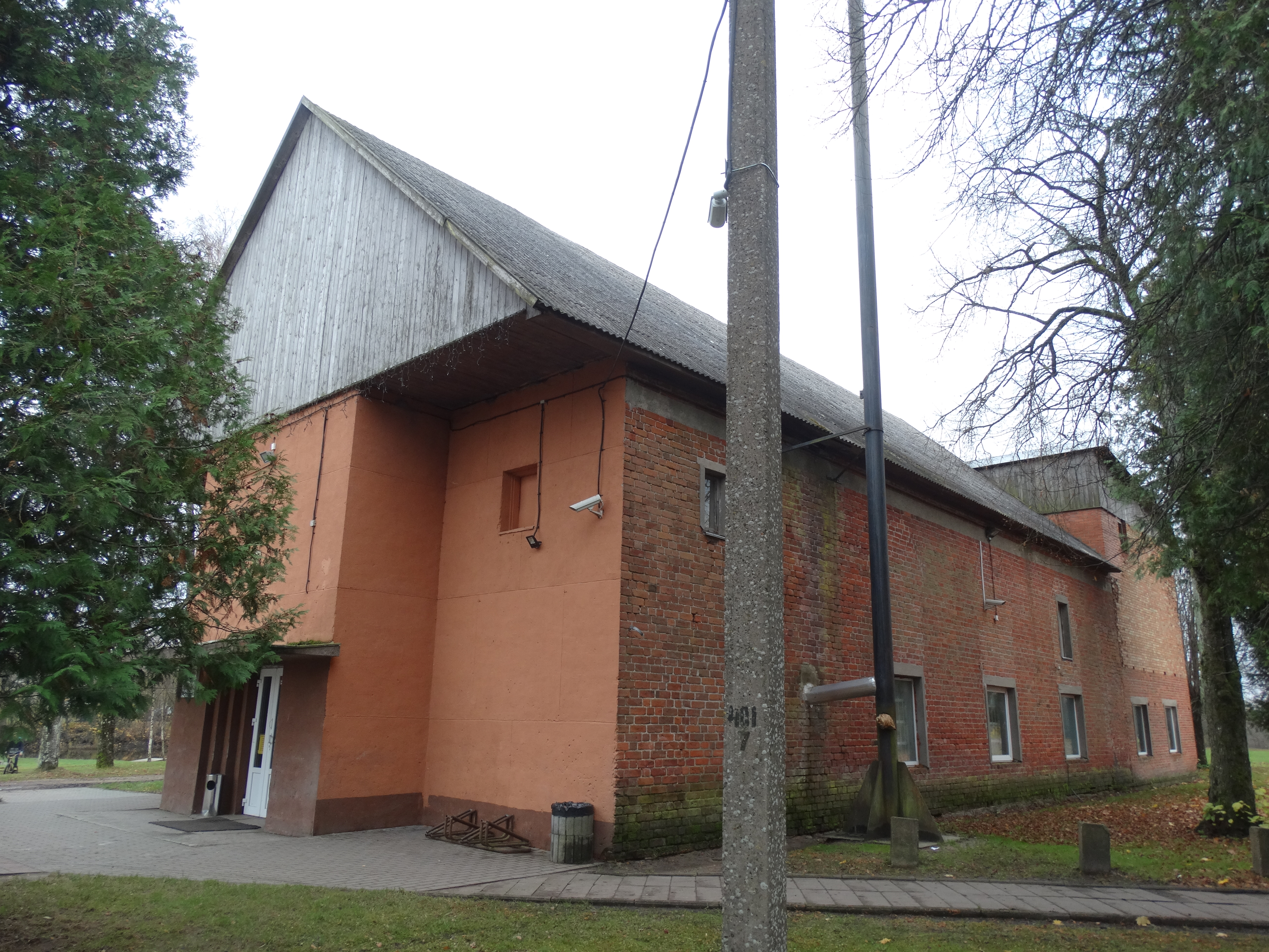 Building of the former Lutheran church, Pašyšiai, Šilutė district, Lithuania